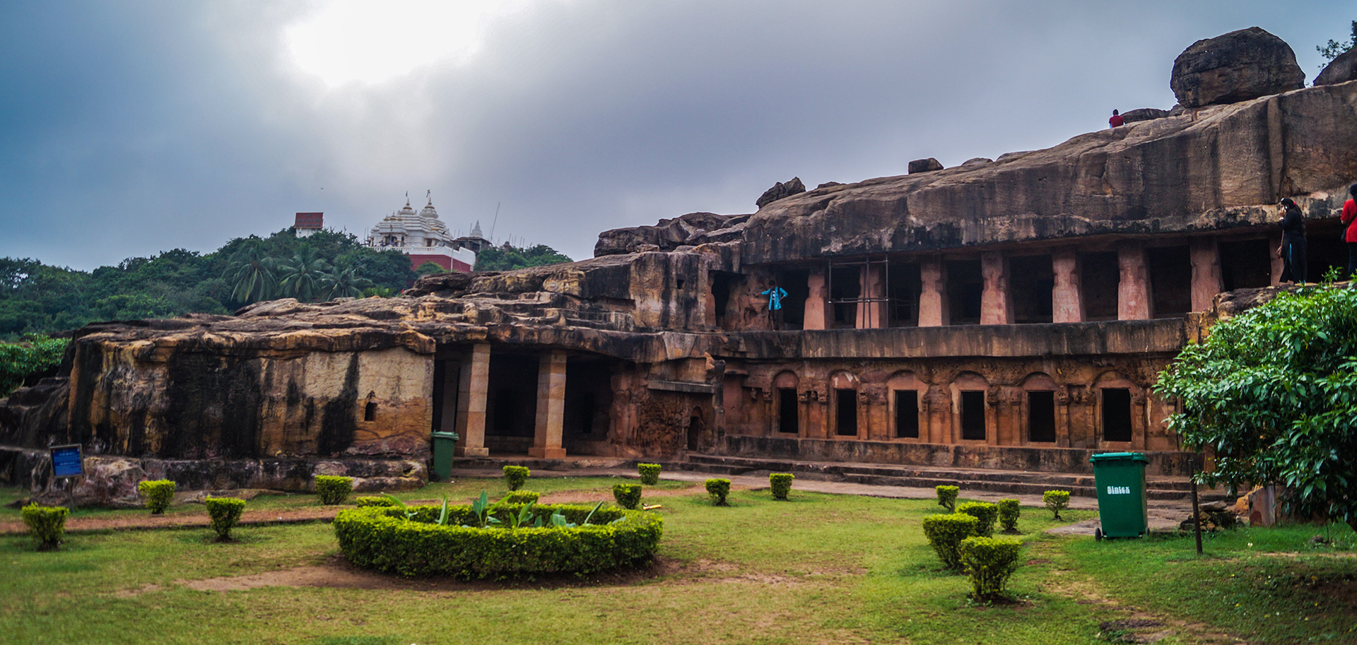 Udaygiri Caves